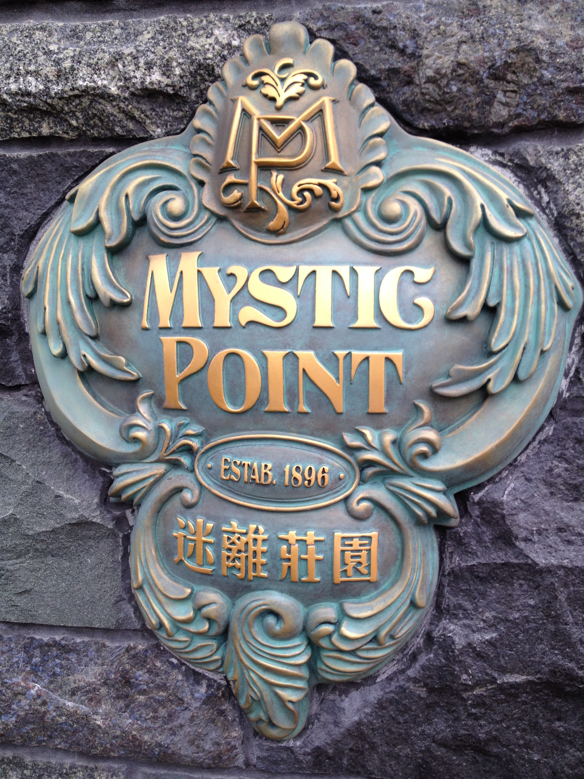 MysticPointLogo